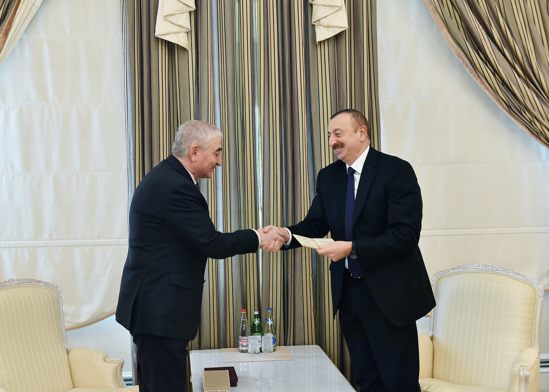 Chairman of Central Election Commission Mazahir Panahov presented presidential candidate certificate to Ilham Aliyev